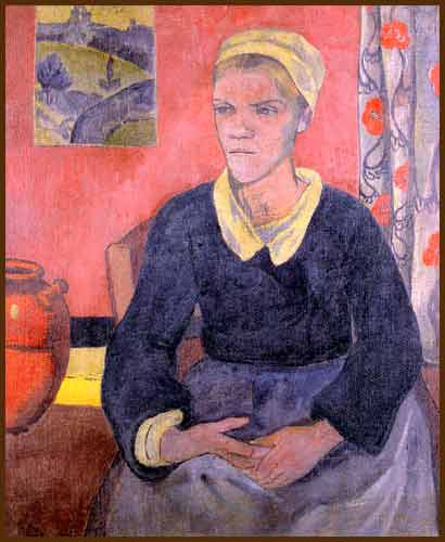 Picture: "LOUISE OU LA SERVANTE BRETONNE" by Paul Sérusier